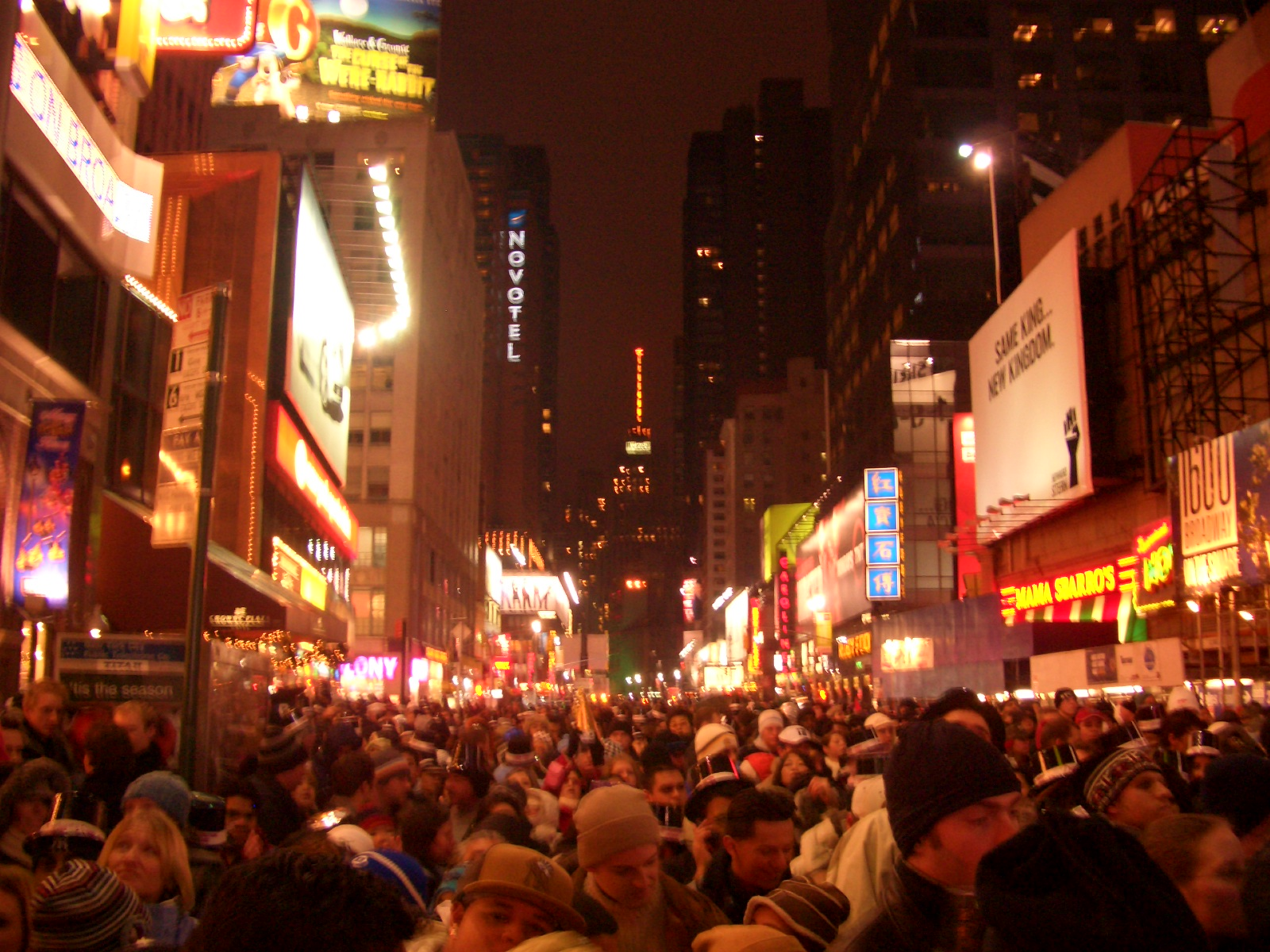 New York Times Square New year celebrations in 2006.